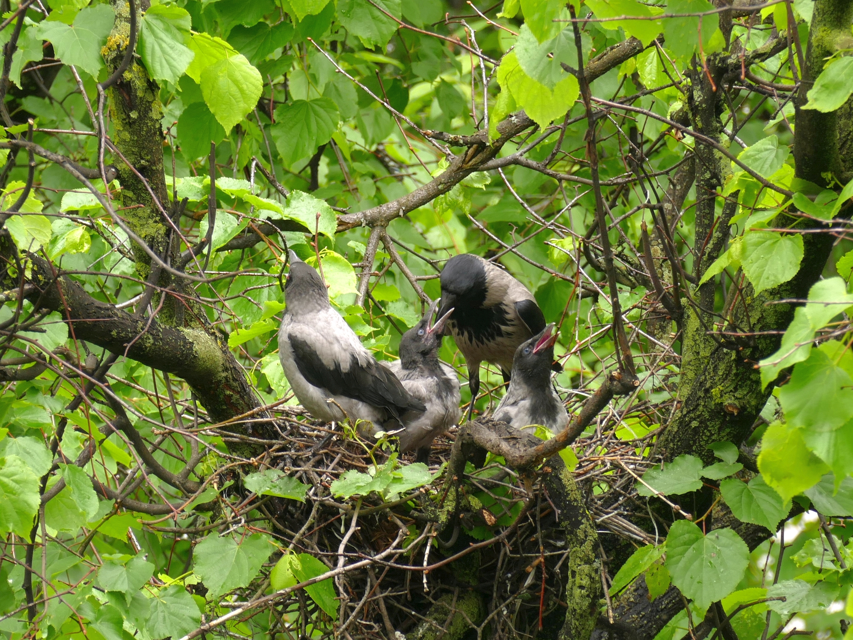 Corvus cornix (Linnaeus) Hooded crow feeds its three сhicks in the nest. Moscow Russia.